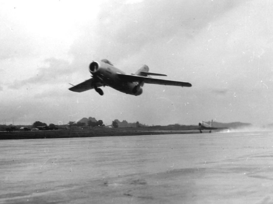 U.S. Air Force pilot Captain Tom Collins test flies a Mikoyan-Gurevich MiG-15bis at an air base on Okinawa, Japan. North Korean Senior Lt. No Kum-Sok had defected with this aircraft at Kimpo air base, South Korea, on 21 September 1953. It was brought on the same day to Okinawa. Note the North American F-86 Sabre taking off with the MiG-15.